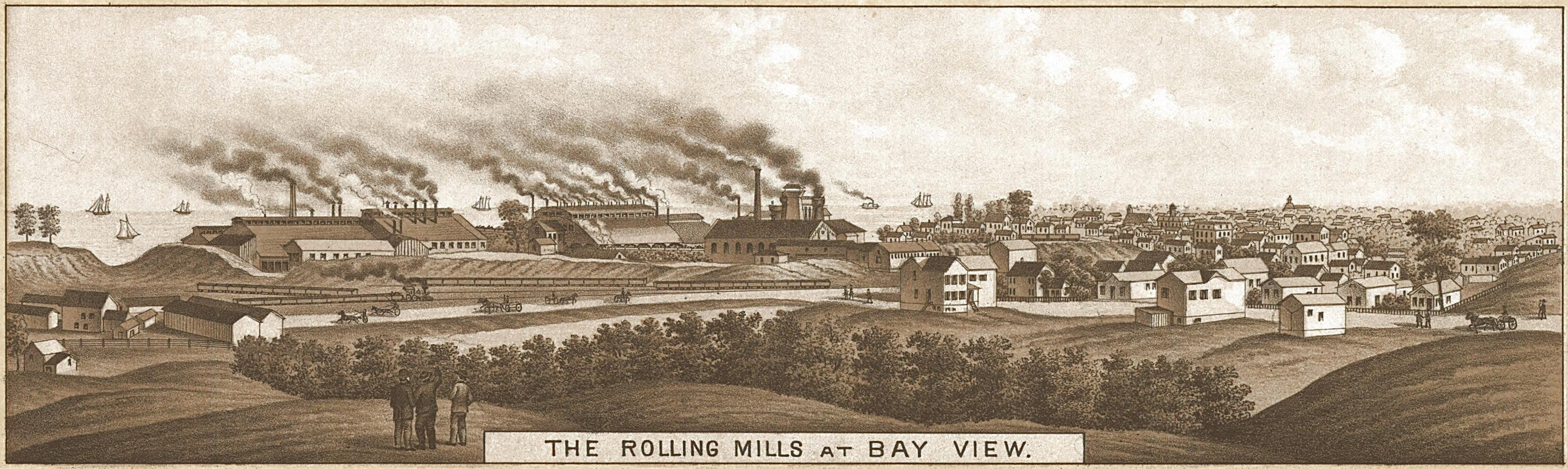 1882 drawing of the rolling mills at Bay View, Milwaukee. Derived from public domain image uploaded at